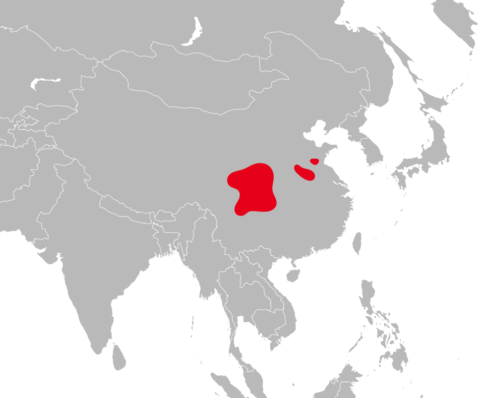 Map of distribution Reeves's Pheasant (Syrmaticus reevesii) in China